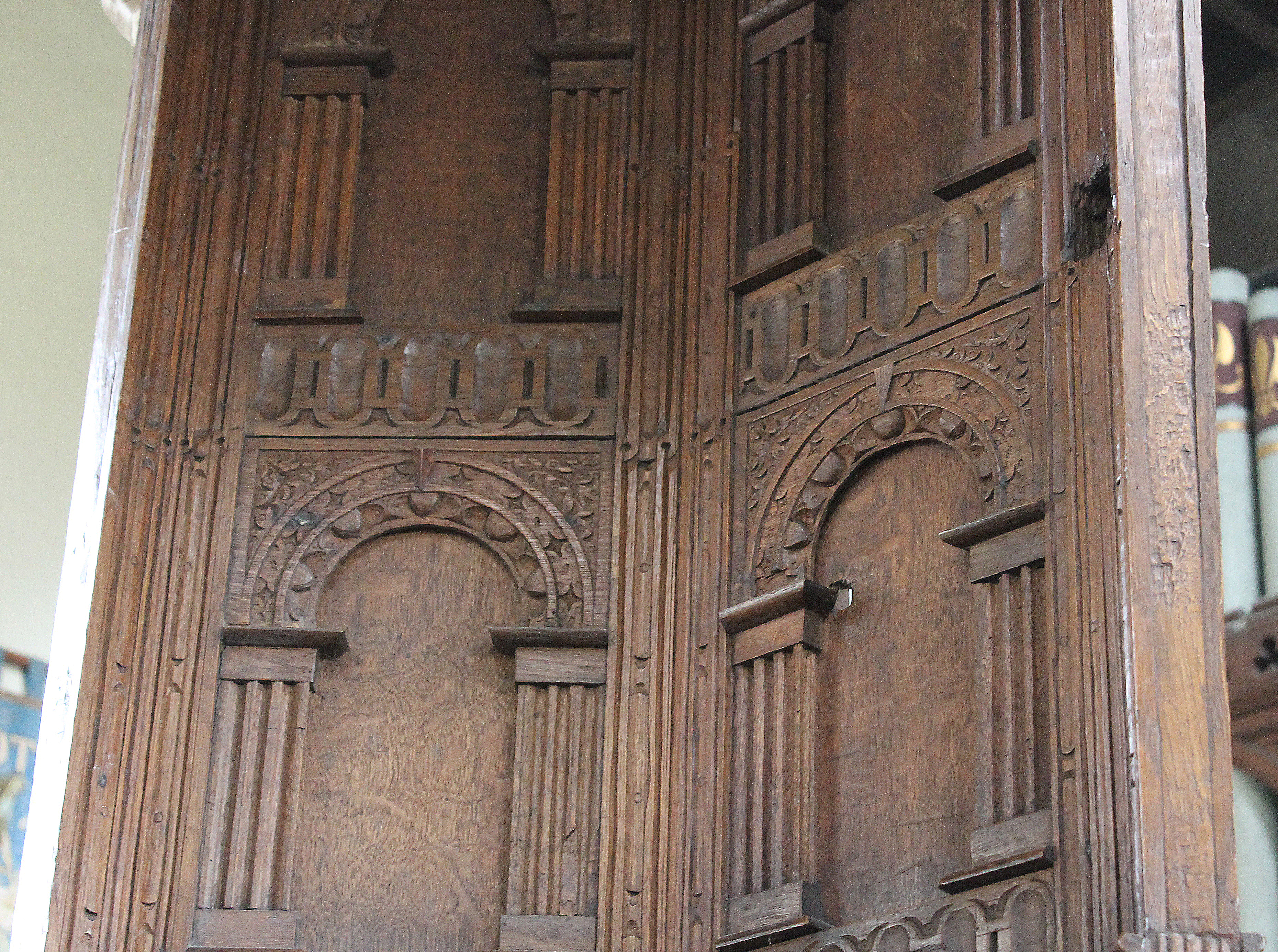 Two holes said to have been made by musket balls in 1664, when Parliamentary forces expelled a Royalist outpost from the Church.